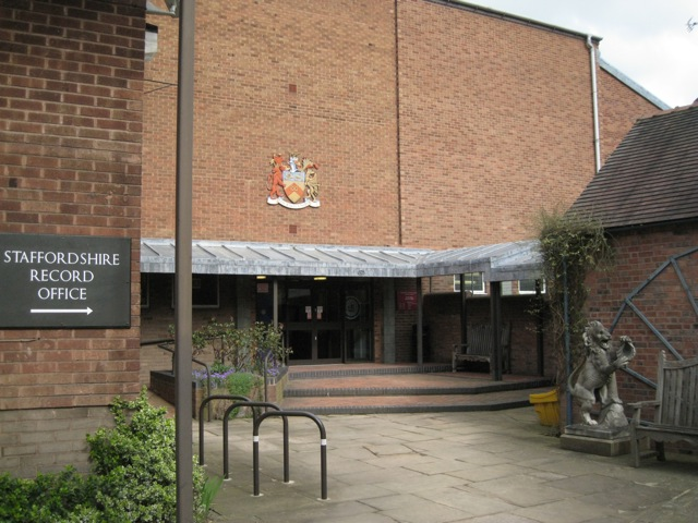 Staffordshire Record Office entrance